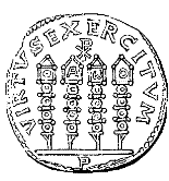 738 woodcuts illustrating the work A Dictionary of Roman Coins, Republican and Imperial (1889). To identify a coin please look at the filename to identify a page number, and check the Dictionary on numiswiki